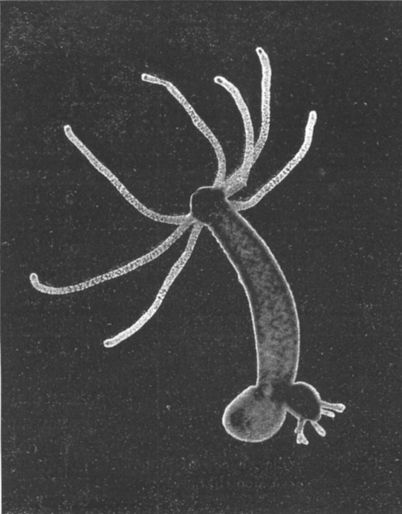 Hydra.